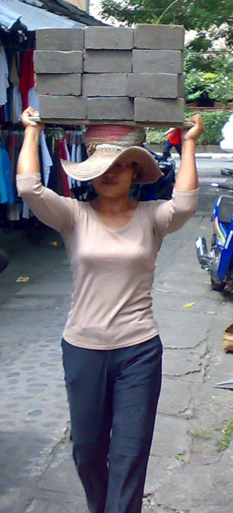 A female laborer transporting concrete blocks in Bali; *all* such labor is performed by women in Bali; They are paid @US$2.00 per day.